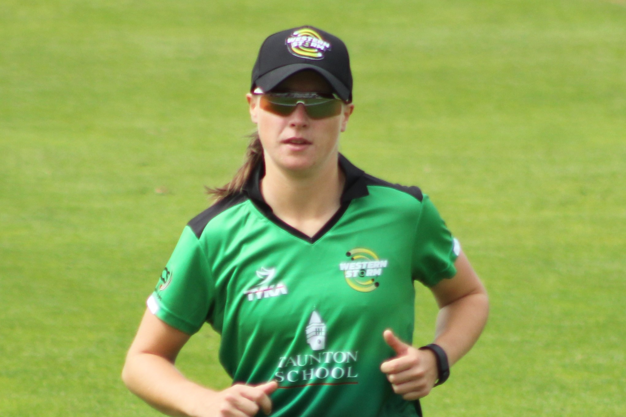 Sophie Luff in the field during the 2019 Women's Cricket Super League match between Western Storm and Loughborough Lightning at the County Ground, Taunton